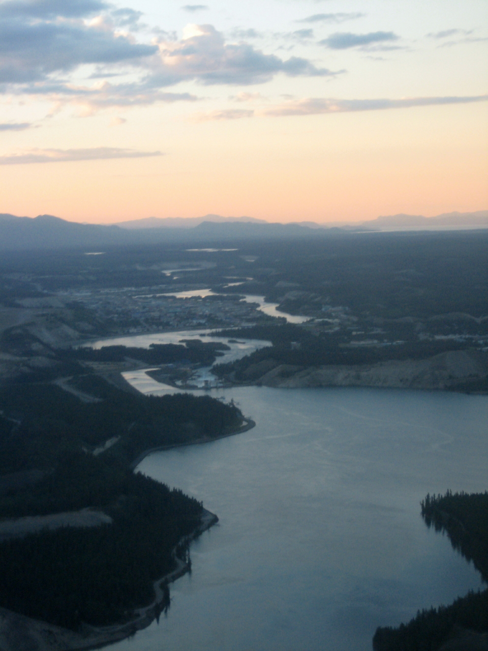 Schwatka Lake from the air